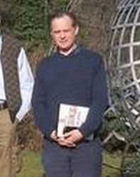 Martin J. Taylor (right) with Jürgen Ritter, Oberwolfach 2002